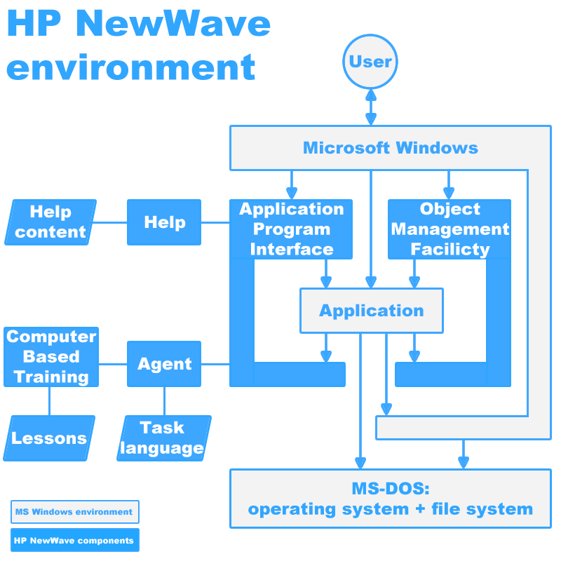 Block diagram of the NewWave version 1 environment components and their relationships to the MS Windows environment